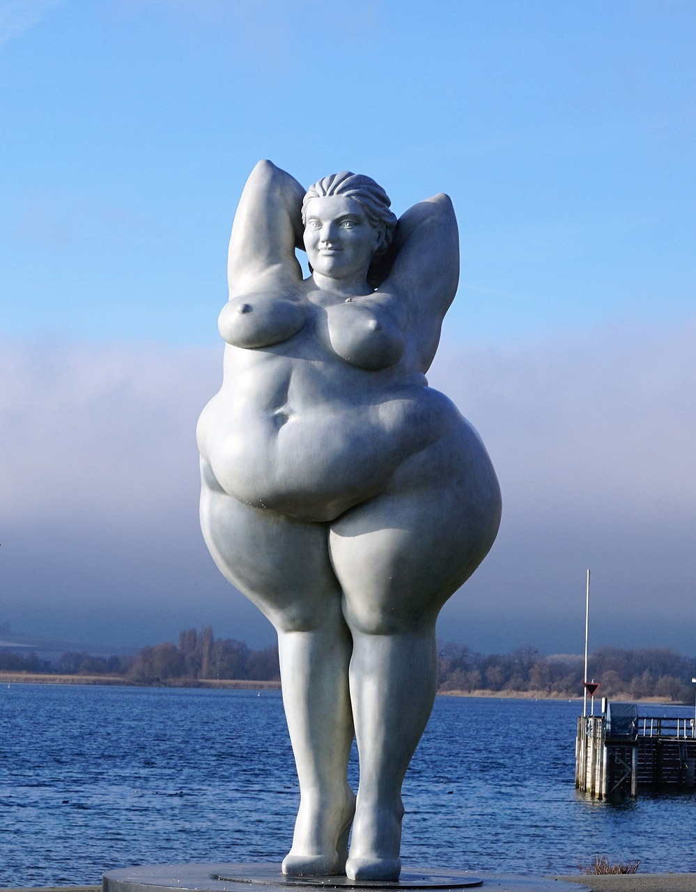 A photograph of a statue created by Miriam Lenk called "Yolanda". It represents a fat woman who stands confidently. The artist says that Yolanda "occupies the available space and does not care about any objections."